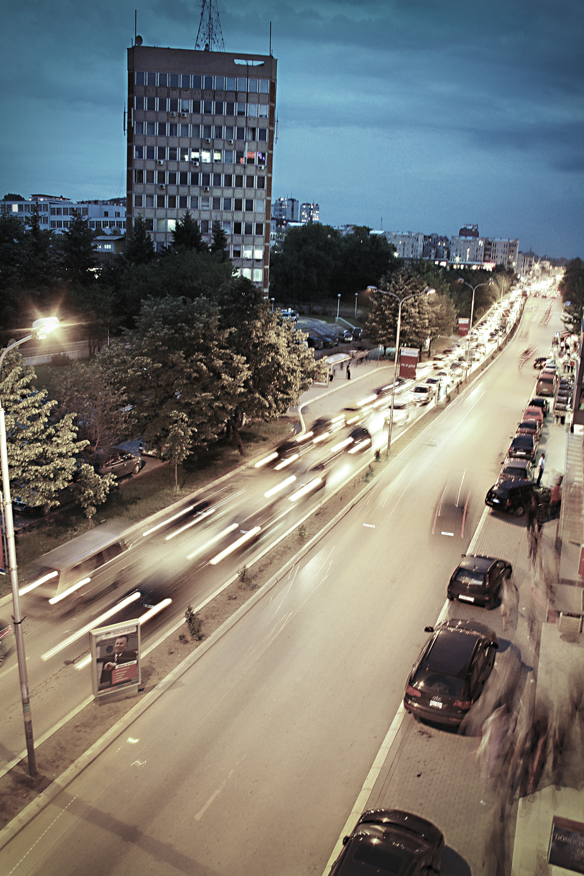 Capital City of Kosova-Prishtina